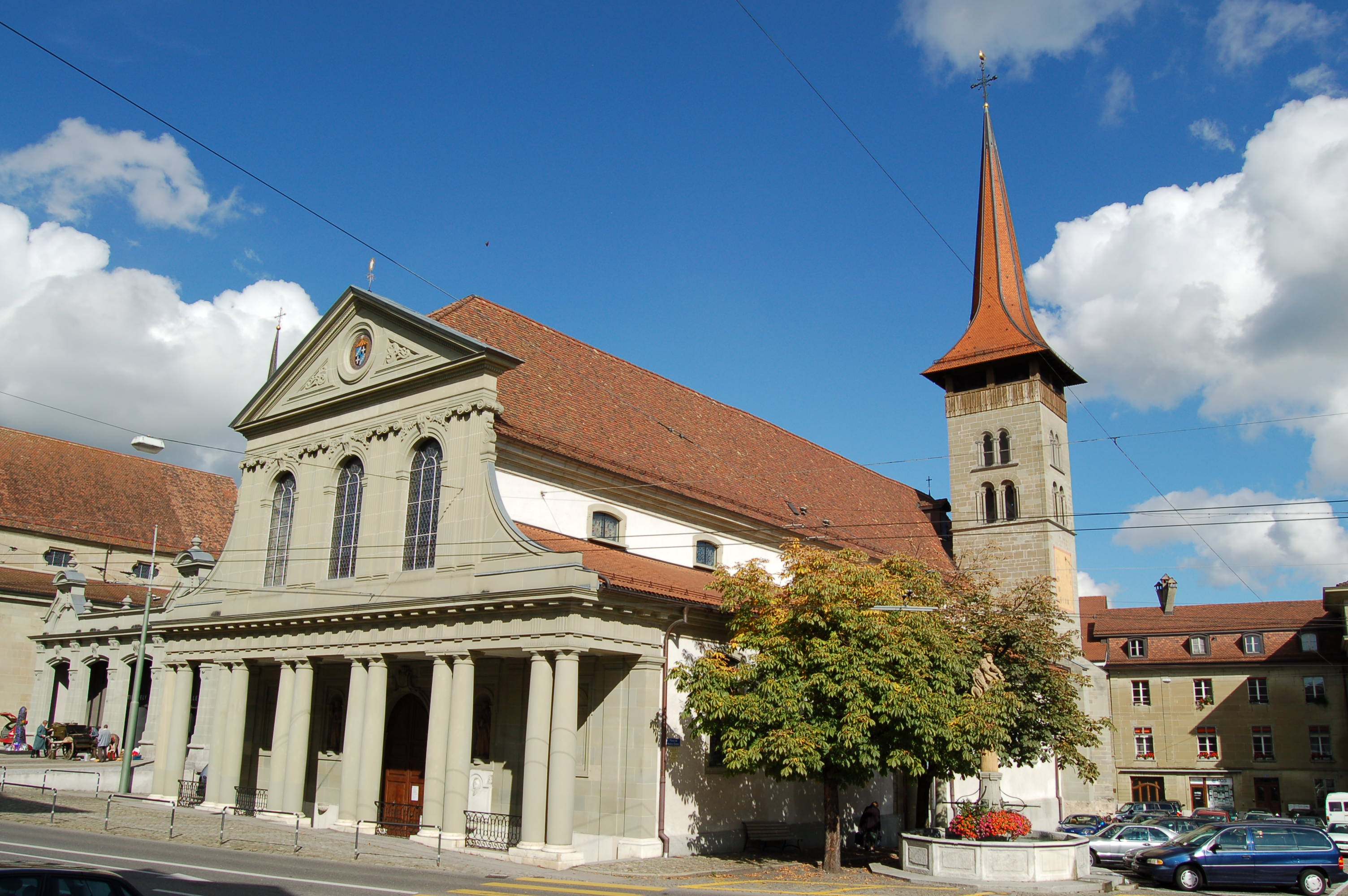 Fribourg, Switzerland